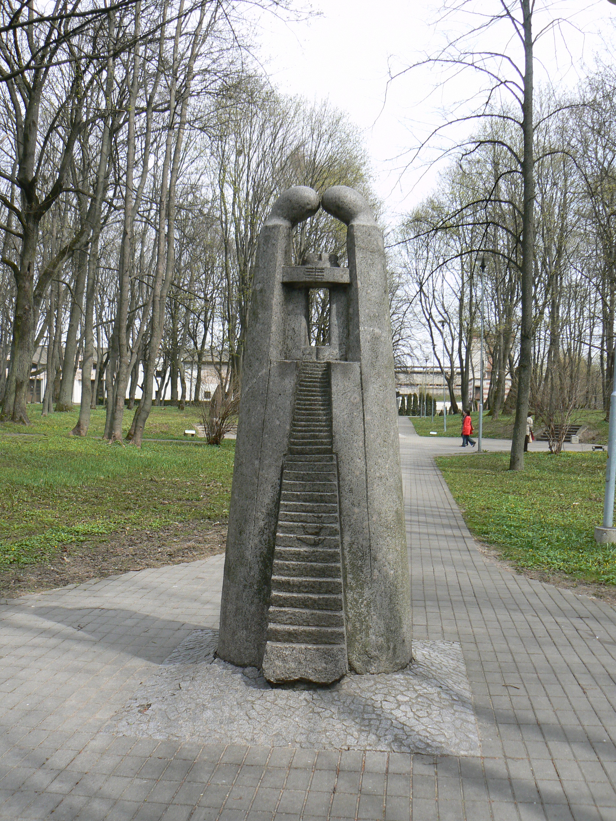 In Klaipėda's park of sculptures Česky: Socha podle obrazu M.K.Čiurlionise "Tvanas" v Parku soch v Klaipėdě